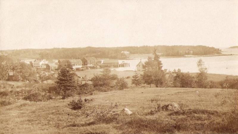 View at Brooklin, Maine (Center Harbor)